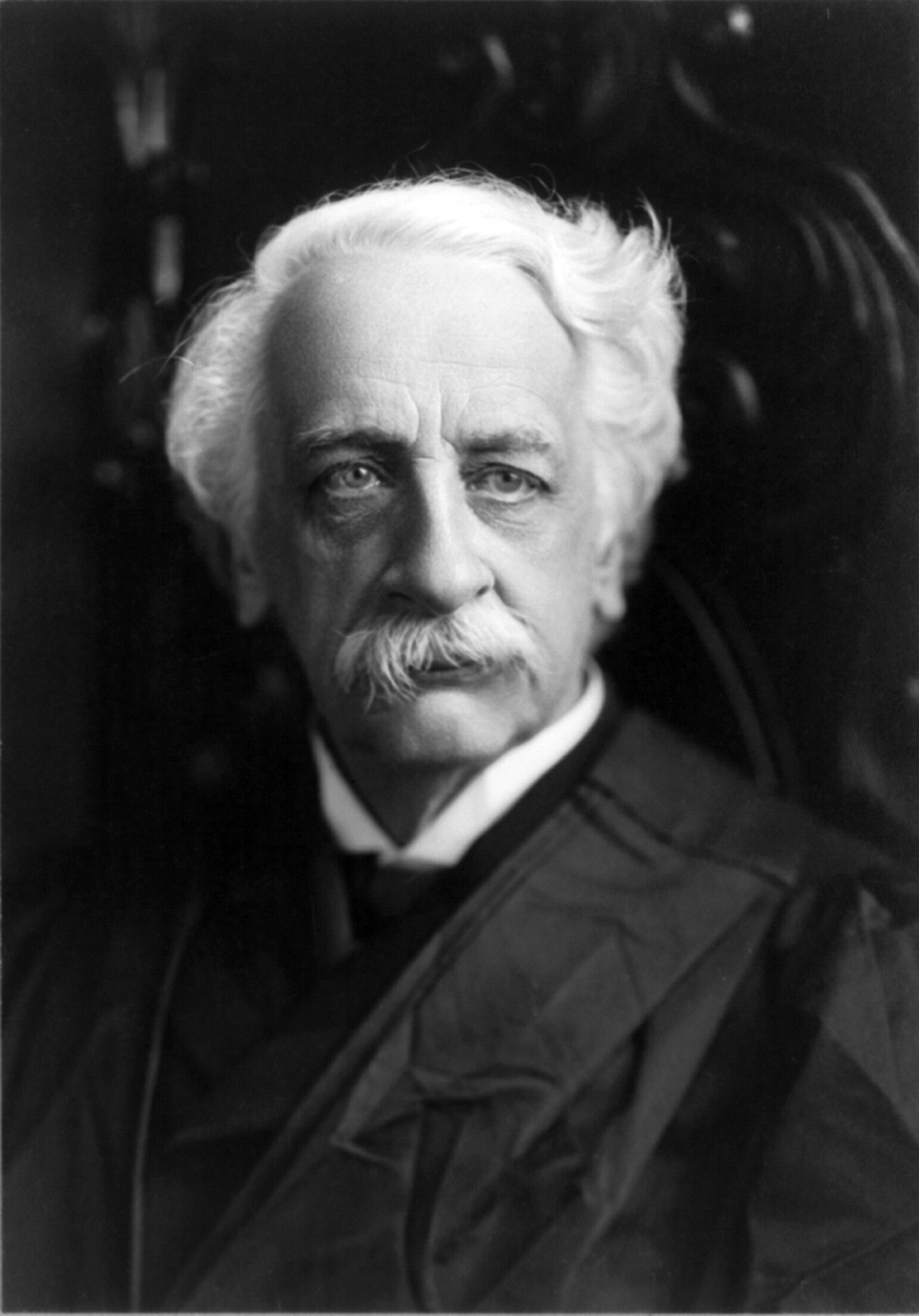 Rufus W. Peckham, Associate Justice of the United States Supreme Court (1895–1909)